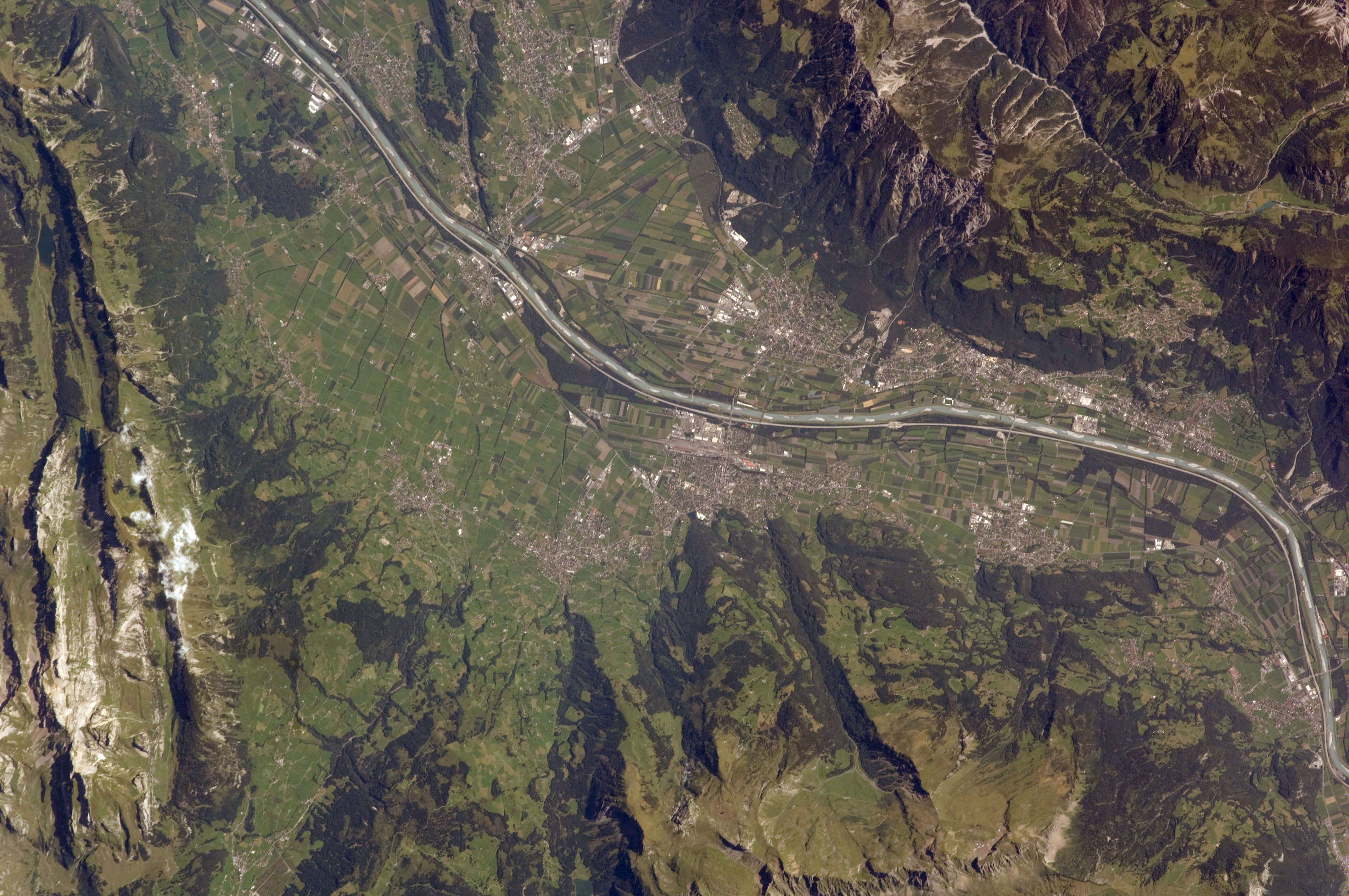 Astronaut Photo of Vaduz, Liechtenstein taken from the International Space Station (ISS). (